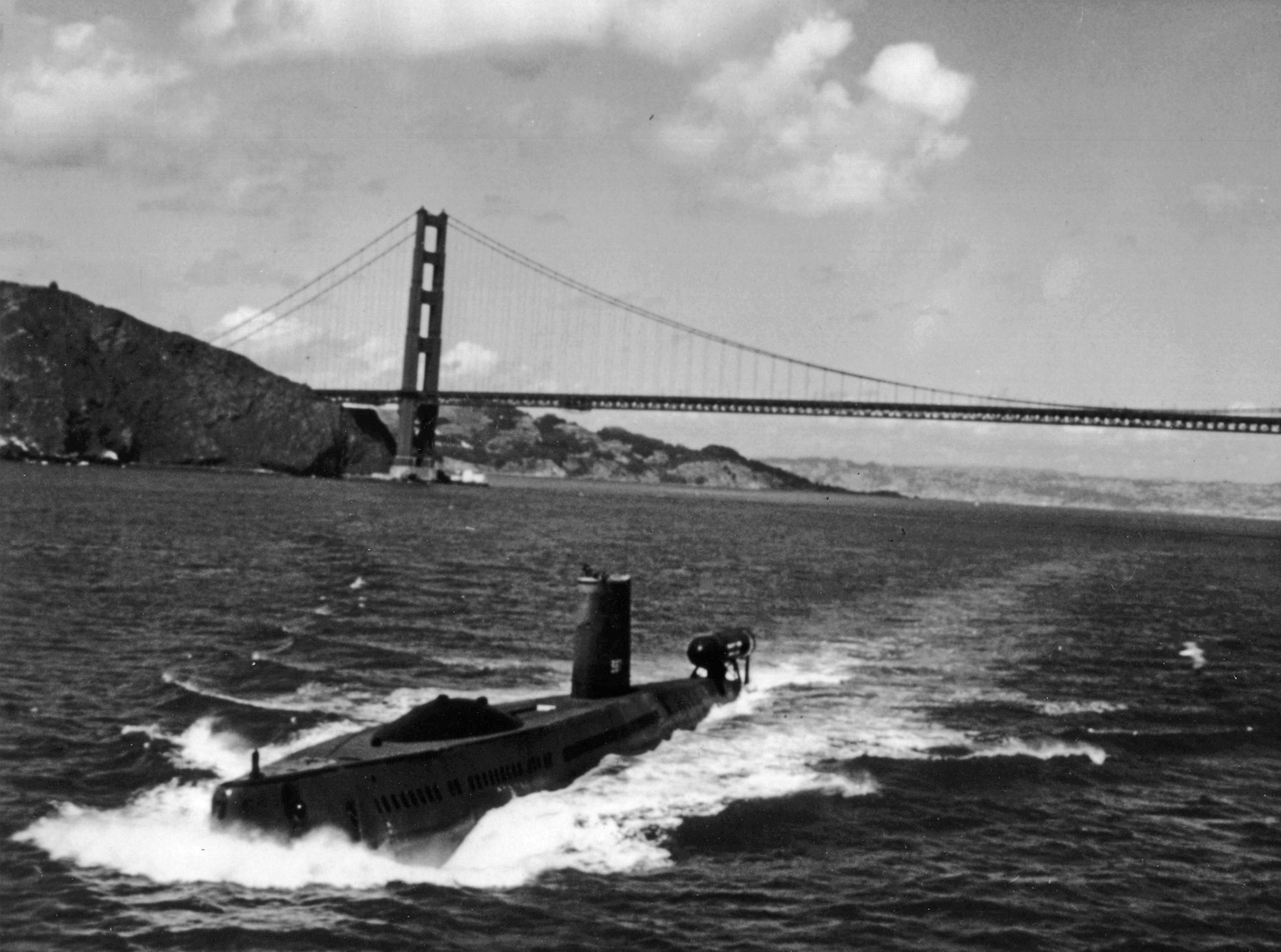 View of Halibut (SSGN-587) departing San Francisco likely in the mid 1970's.